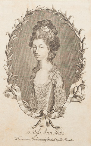 1790 engraving (originally published on The New Lady's Magazine) of Miss Ann Porter, who was assaulted by the London Monster.